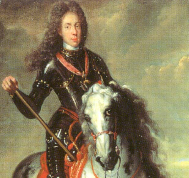 Equestrian portrait of Prince Eugene of Savoy (1663-1736) (detail), he was one of the most brilliant generals in the history of the Habsburg Empire.